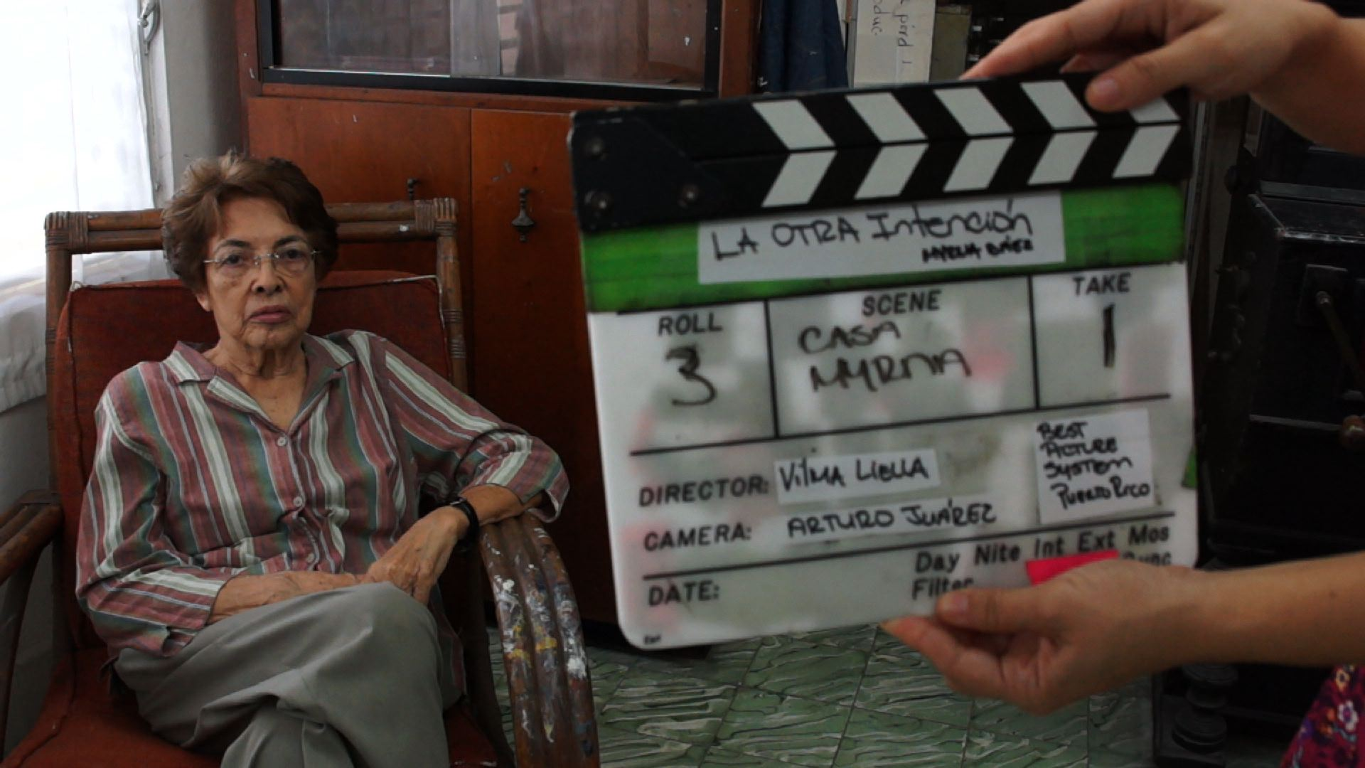 Photo of renowned Puerto Rican painter and printmaker, Myrna Báez, during the filming of "The Other Intention," an observational documentary that travels through the work of the artist. The photo was uploaded to Flickr by producer Vilma Liella.